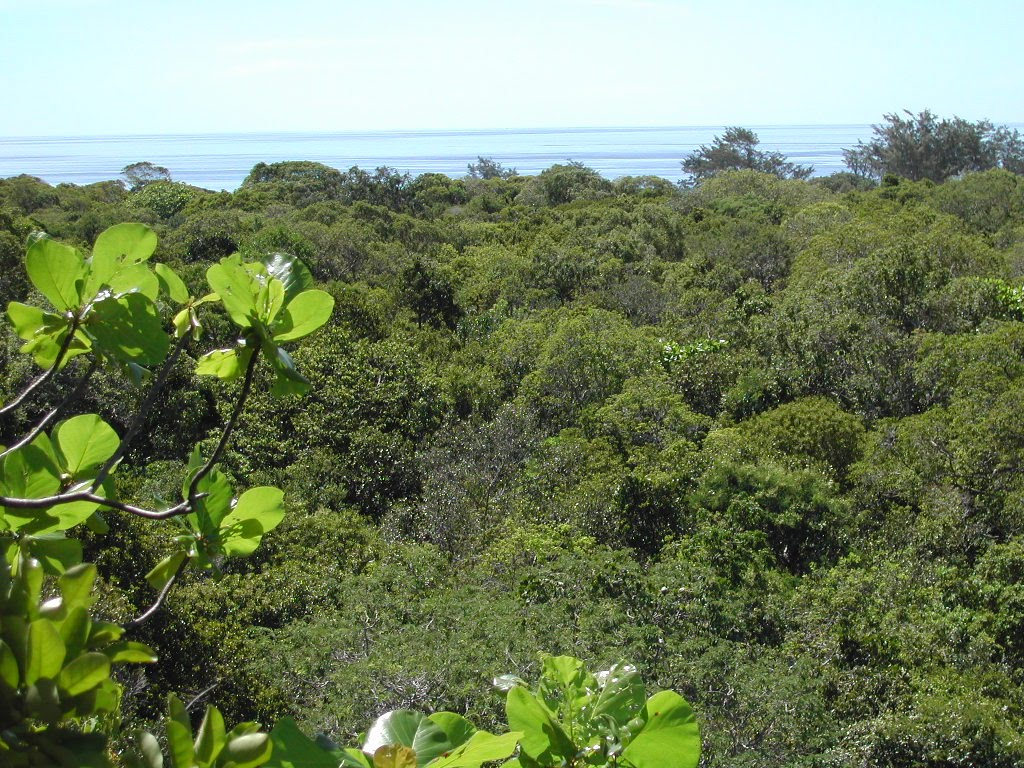 View over tropical dry forest to coastal strand vegetation on Jaco Island, Tutuala, Lautem, Timor-Leste